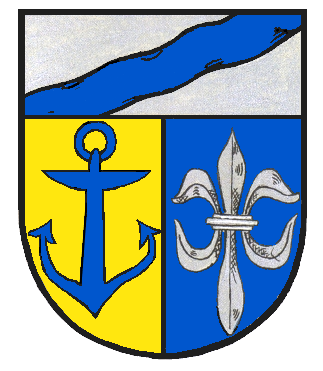 Coat of arms of Kamp-Bornhofen